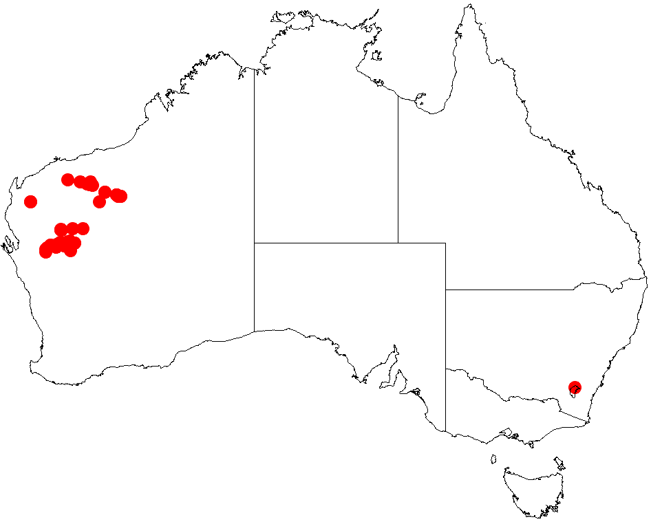 Acacia distans occurrence data from Australasian Virtual Herbarium downloaded from on 8 December 2018